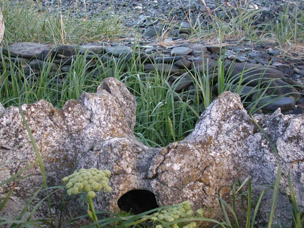 Old Meat Storage Pit, Whale Bone Ally, Yttygran Island